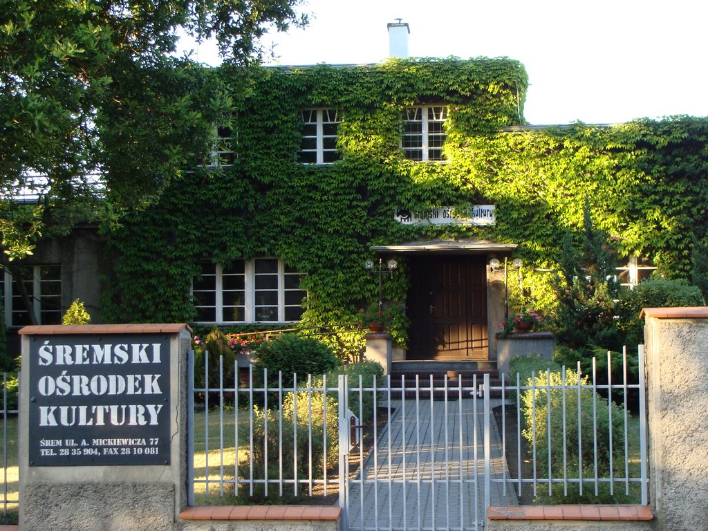 Śrem, Culture's Center of Śrem.